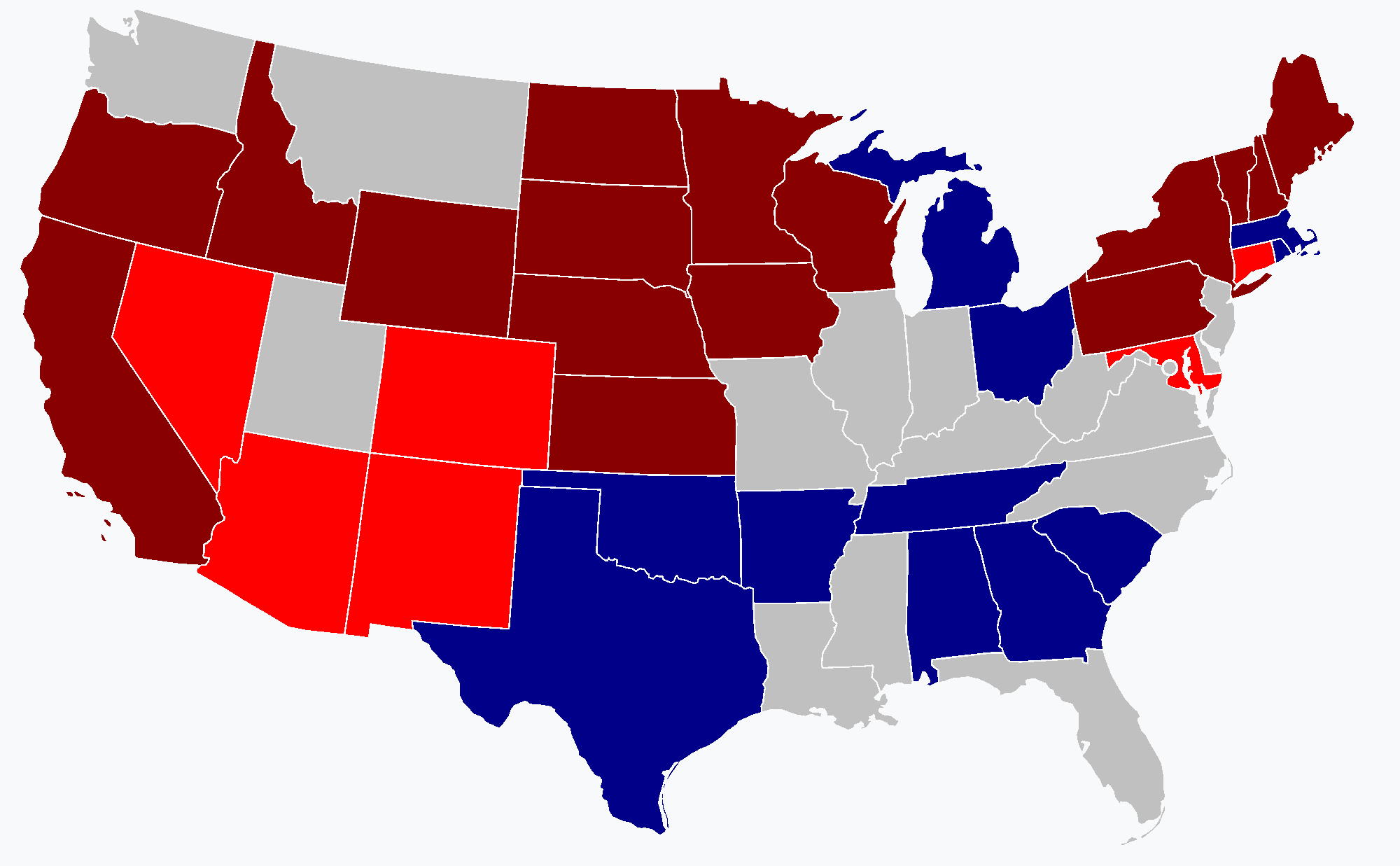 A map showing the results of the 1950 United States Gubernatorial elections